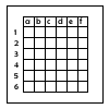 Matrix diagram for Seven Management and Planning Tools by Jon D Toellner